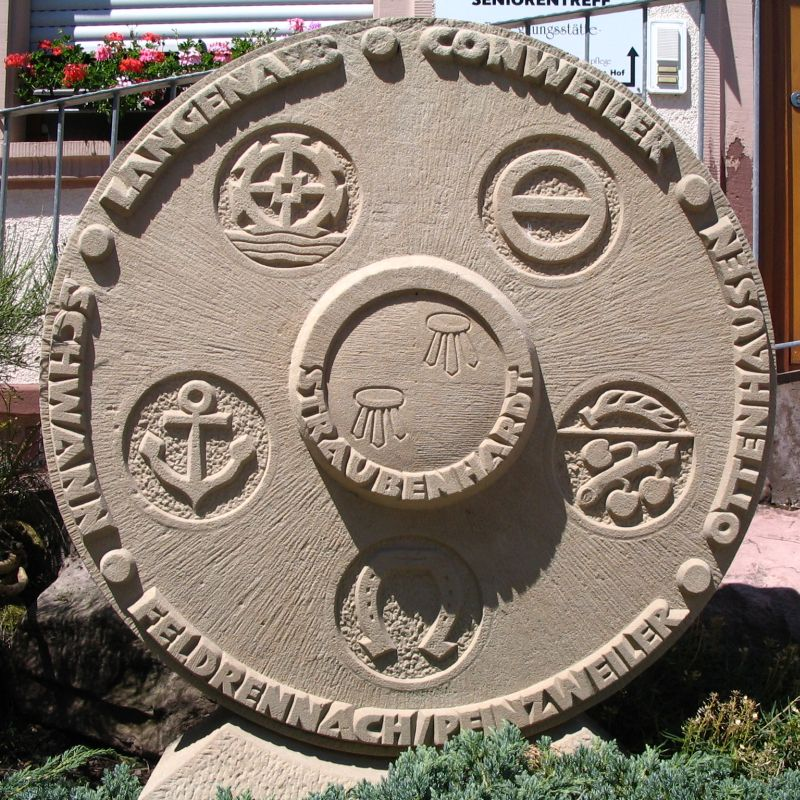 Stone in Straubenhardt, Germany with the emblems of the municipality's formerly autonomous districts